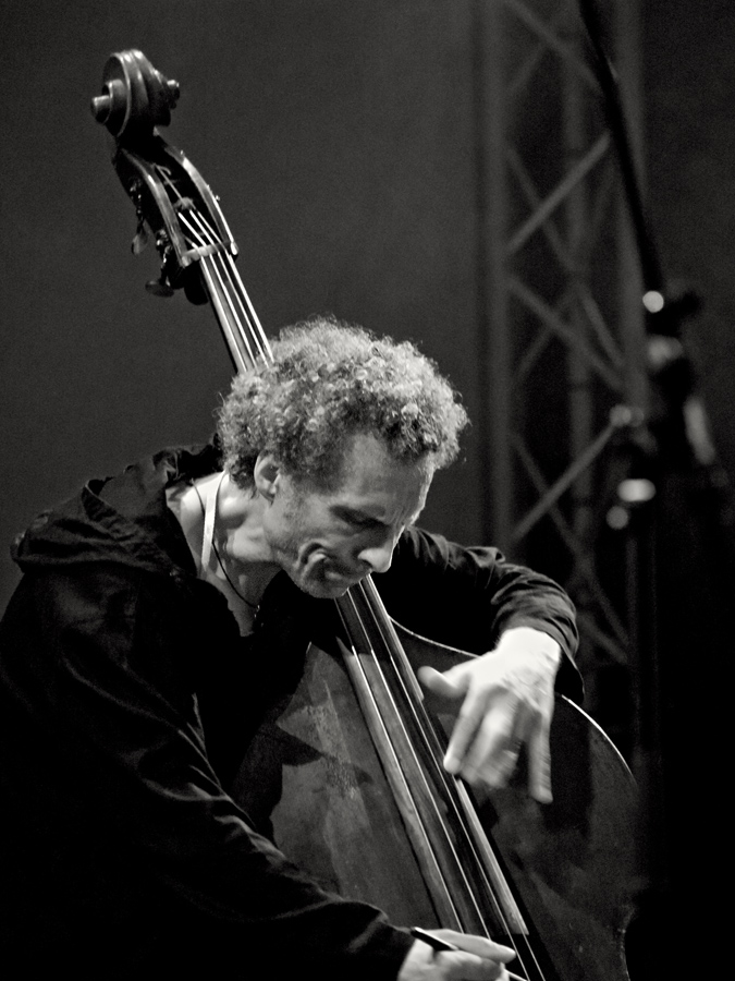 Achim Tang at moers festival 2007